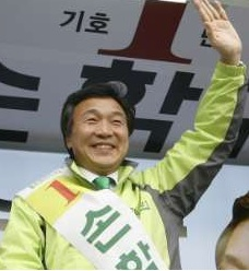 Crop of File:Son Hak-gyu.jpg